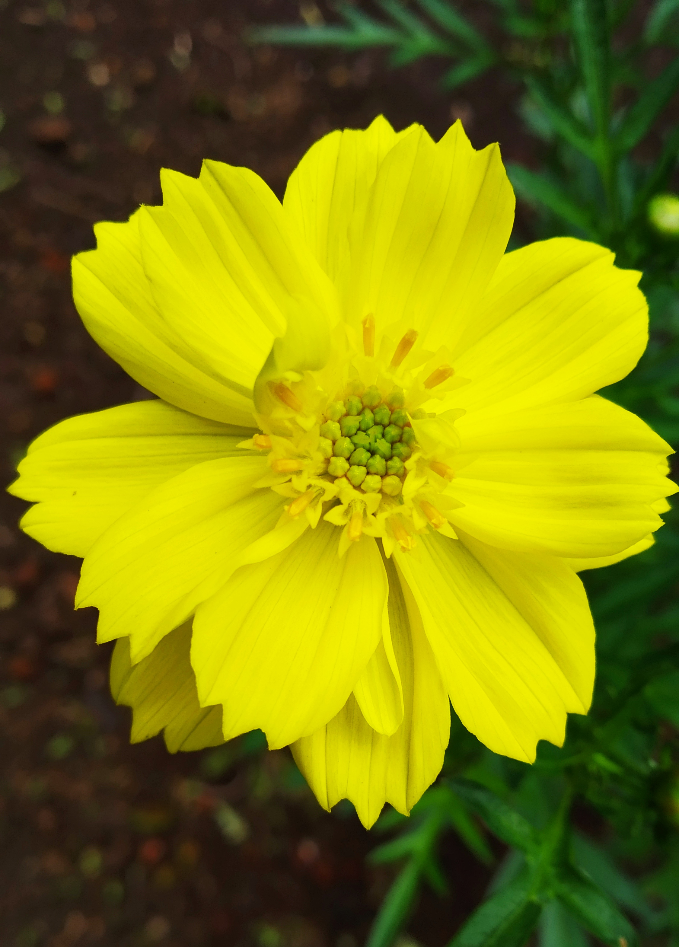 Yellow cosmos in Kepahiang